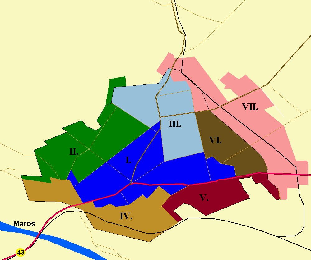 Official townships of Makó, according to the Integrated Developmental Strategy.